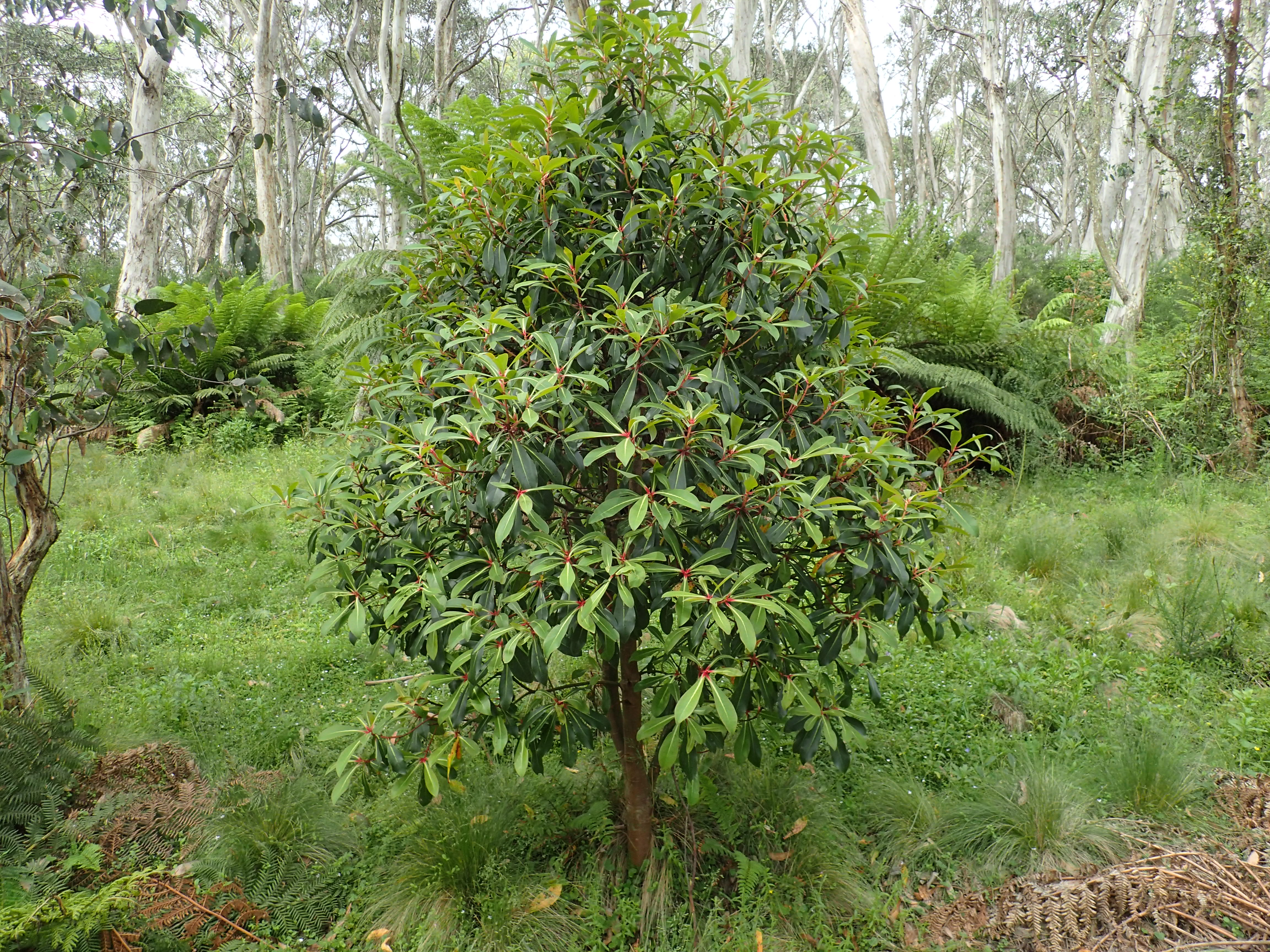 Tasmannia purpurascens growing near the Barrington Track in The Barrington Tops National Park